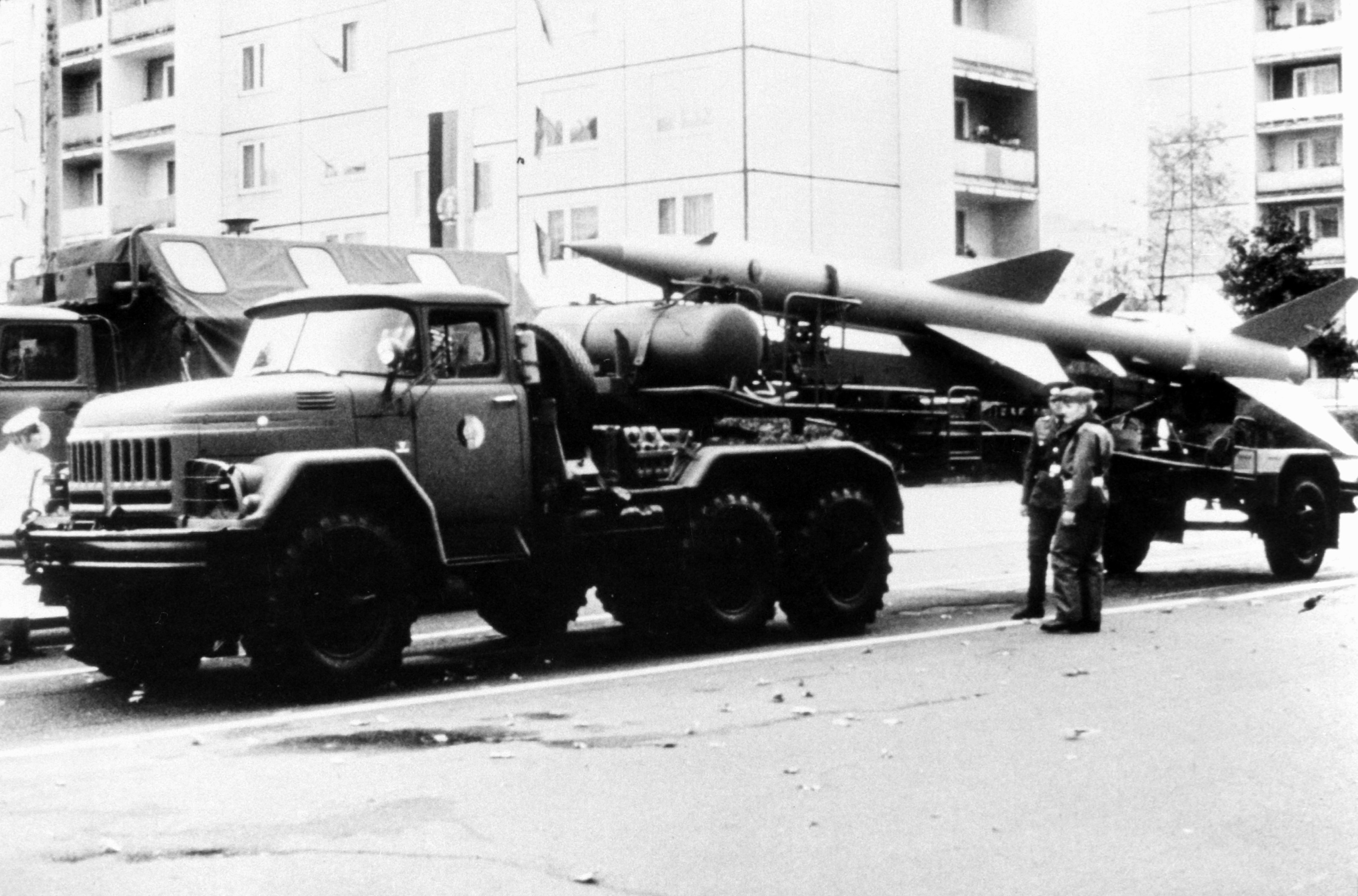 Left side view of an SA-2 Guideline surface-to-air (SAM) missile mounted on a Zil-131 transporter of the East German Army.